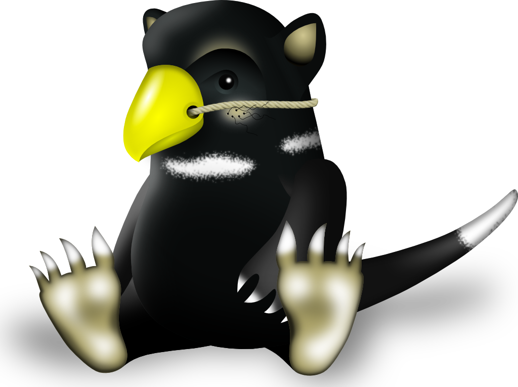 Tuz is the mascot of the 2009 conference. It has been chosen as the logo of Linux kernel 2.6.29 to support the effort to save the Tasmanian devil species from extinction.